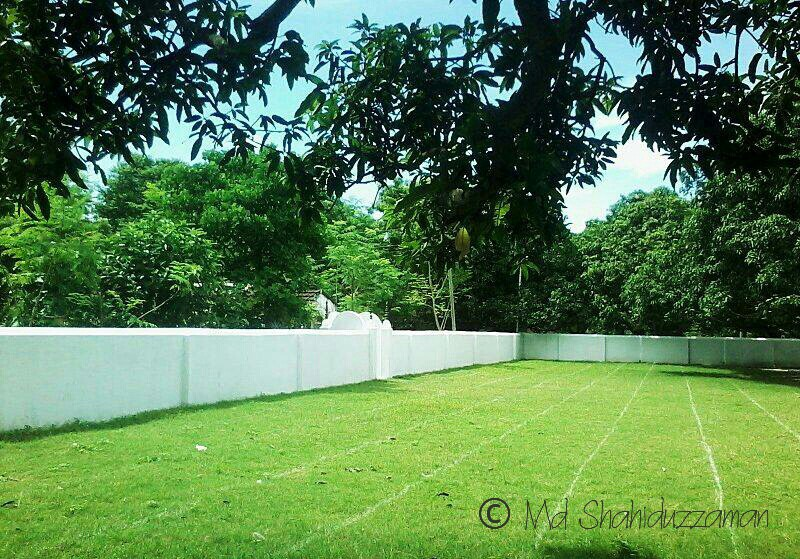 Naldahari Eidgah Ground